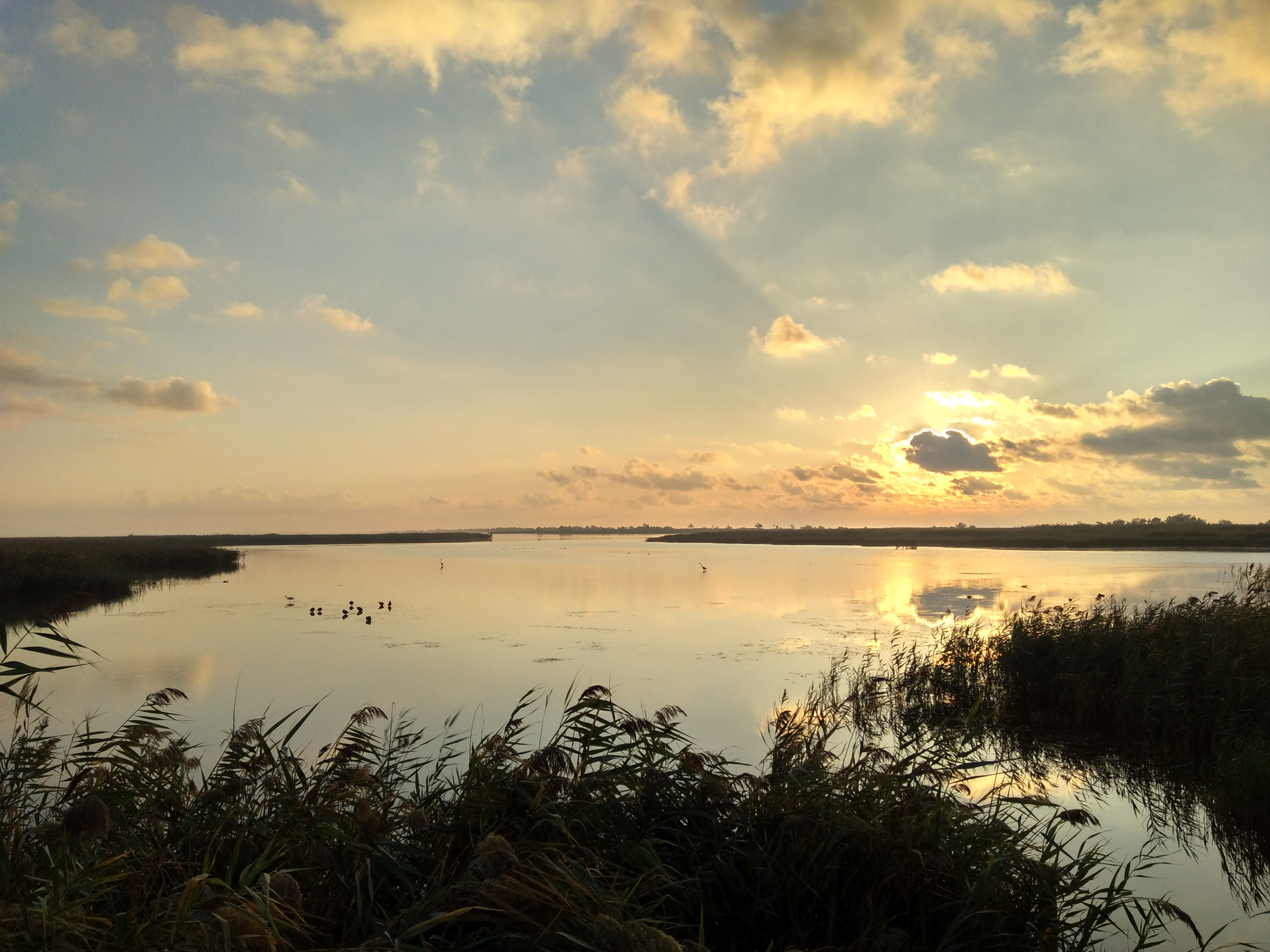 Dzhantshey Lagoon, Tuzly Lagoons National Nature Park, Odesa Oblast, Ukraine